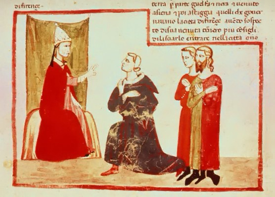 Bonifacius VIII receiving Charles de Valois with a delegation from the Guelph faction. Miniature by the Florentine School, 1301. Biblioteca Apostolica Vaticana, Rome